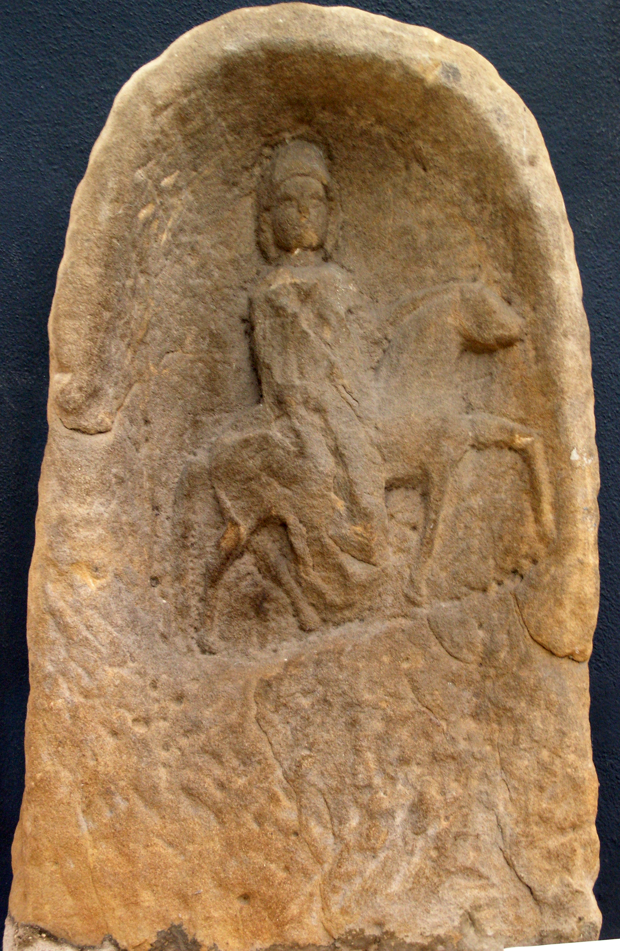 Stela representing the Gallic goddess Epona, 3rd c. AD, from Freyming (Moselle), France. Musée lorrain, Nancy